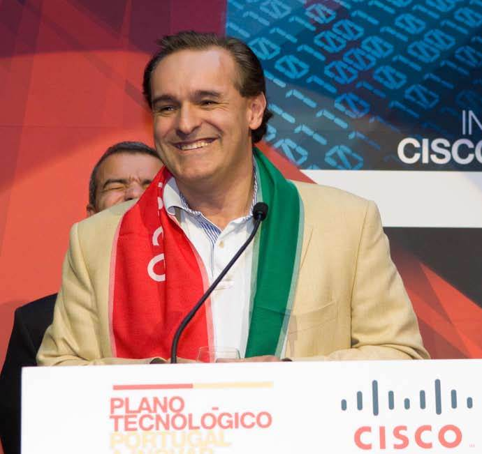 Helder Antunes at the Portugual Cisco opening 2008